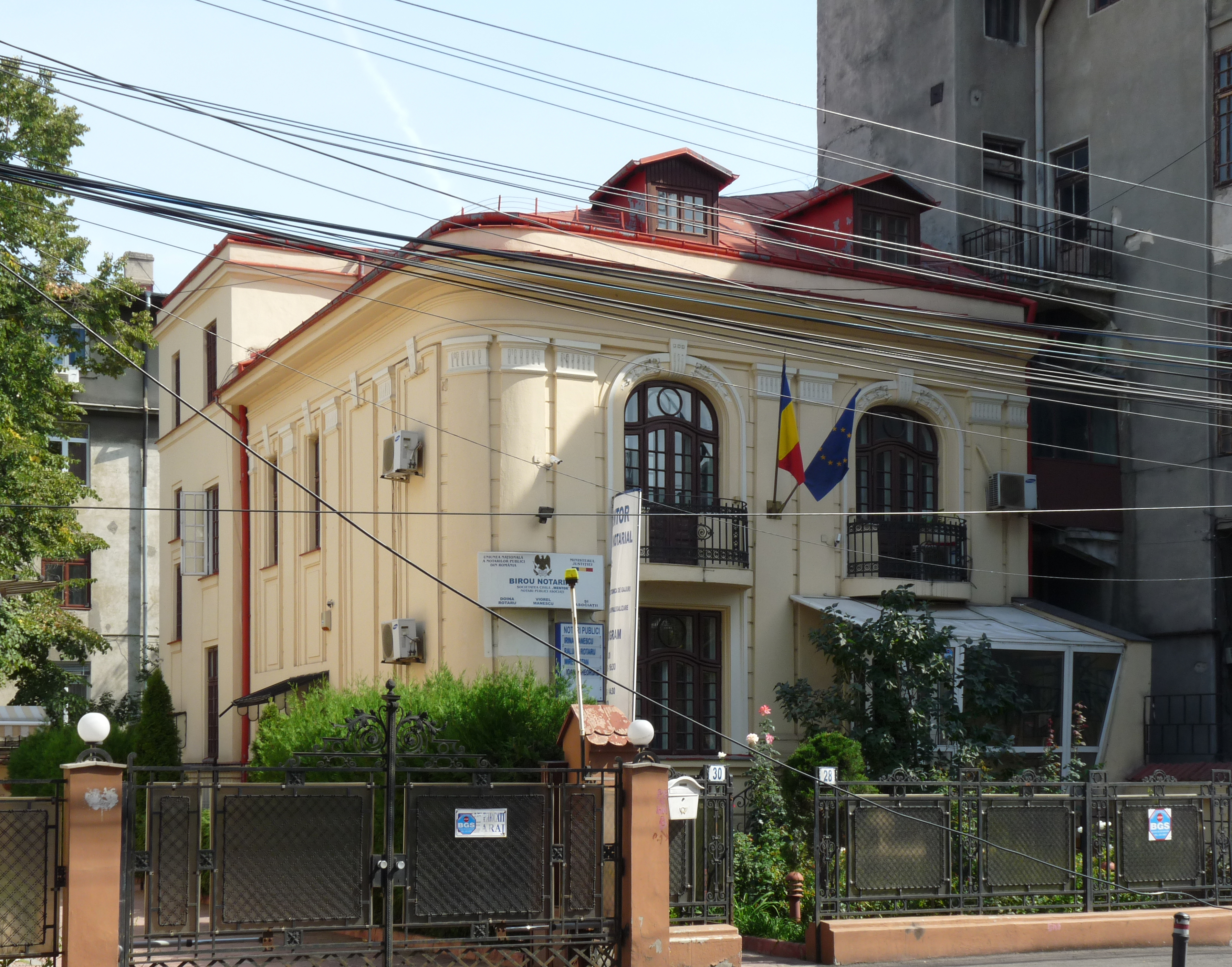 Historical building in Bucharest, Romania, on Polonă street 28